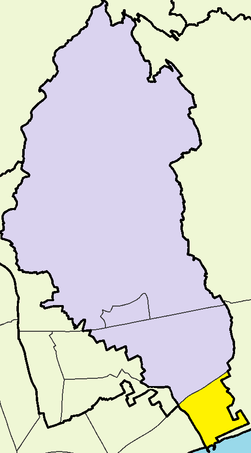 Ayios Georgios Fragkoudi in Agios Athanasios Municipality.